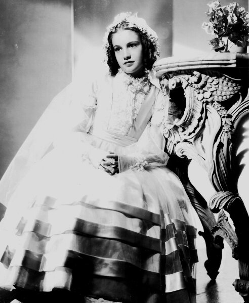 Joan Brodel (Leslie) in a publicity still for Camille (1936)